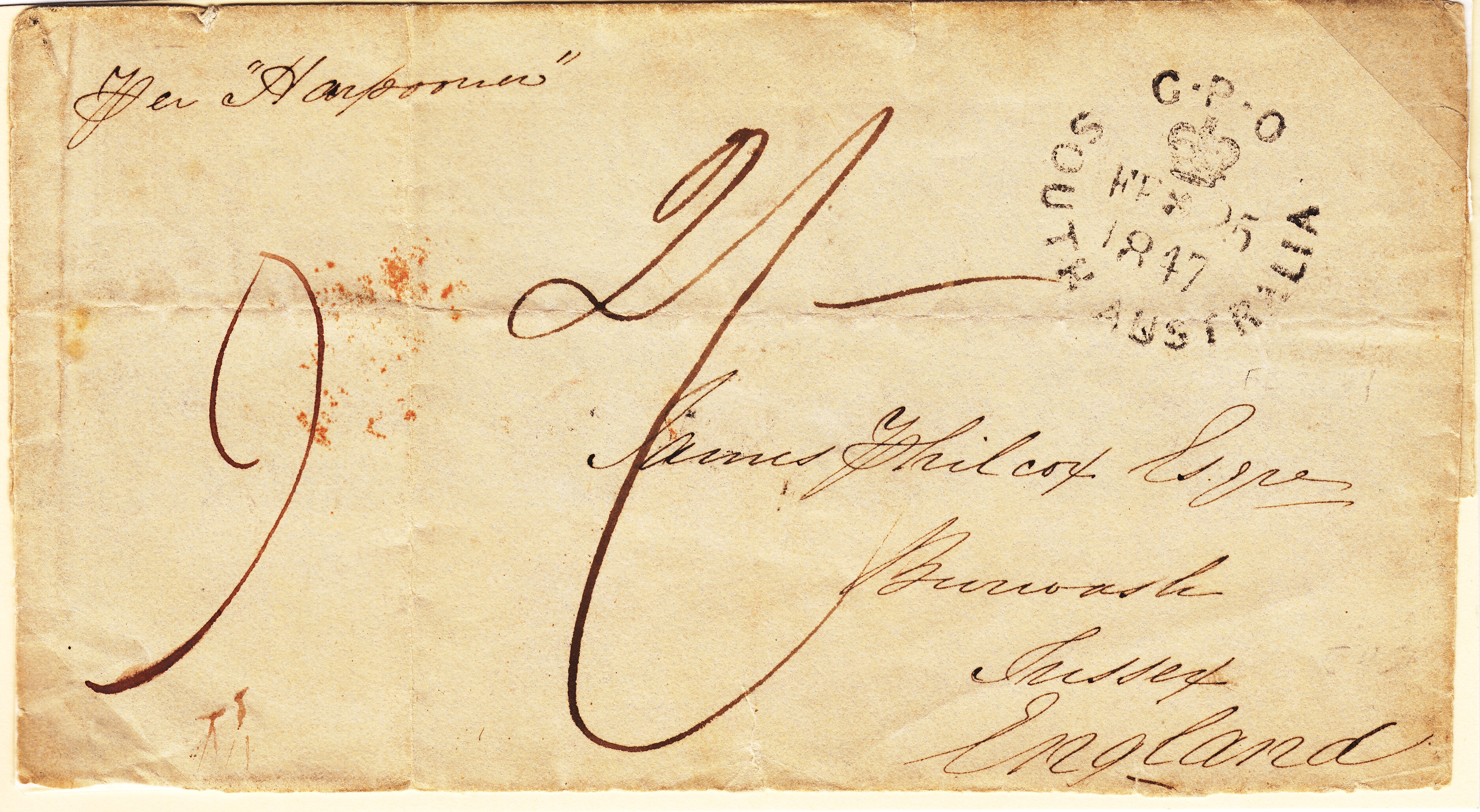 1847 prestamp cover Adelaide to England showing 9 pence paid in Adelaide and 2 shillings charged in England. Journey time was 215 days.